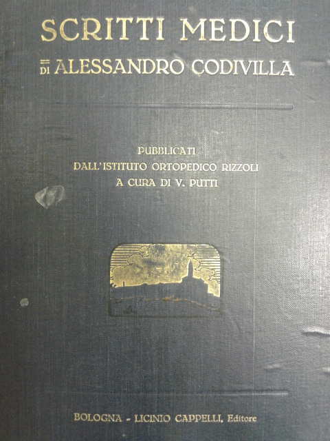 Copertina del libro "Scritti medici di Alessandro Codivilla" a cura di Vittorio Putti, Licinio-Cappelli editore, Bologna